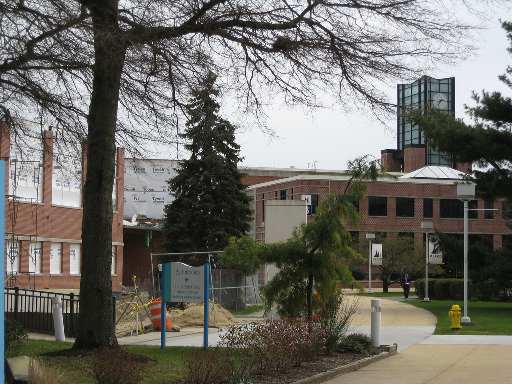 Some of the current construction at Bartlett Hall at Ocean County College, in Toms River, New Jersey (left), the campus library (right), and the clock tower (background).